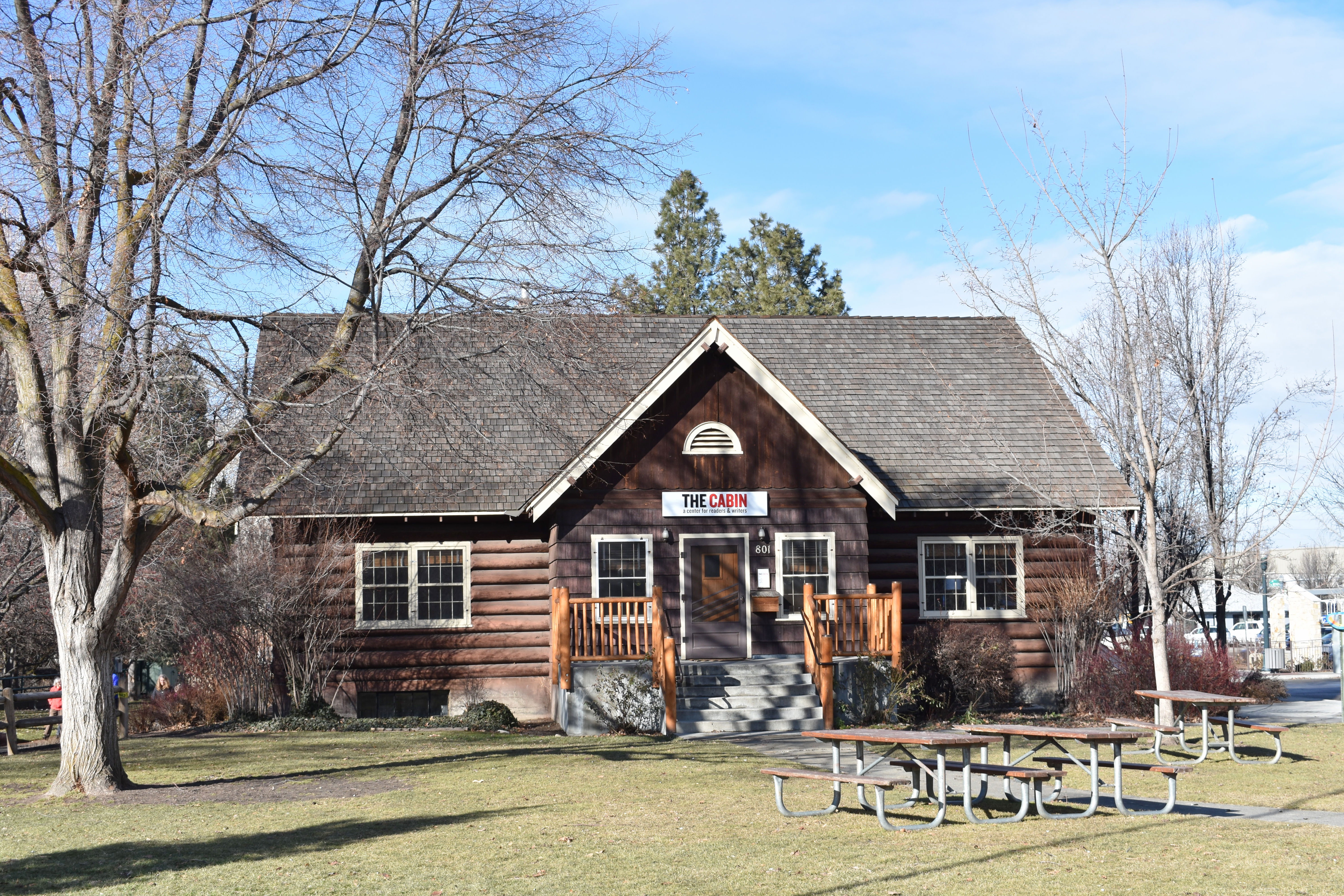 The Idaho State Forester's Building (1940) in Boise was designed by Hans C. Hulbe and is listed on the National Register of Historic Places.